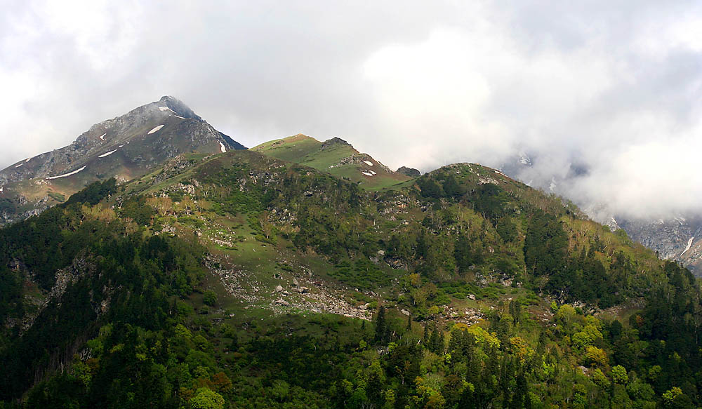 So vivid at Haura Thaatch on 21/5/05 at around 8 a.m. during Saurkundi Pass Trek in Kullu District of Himachal Pradesh, India.